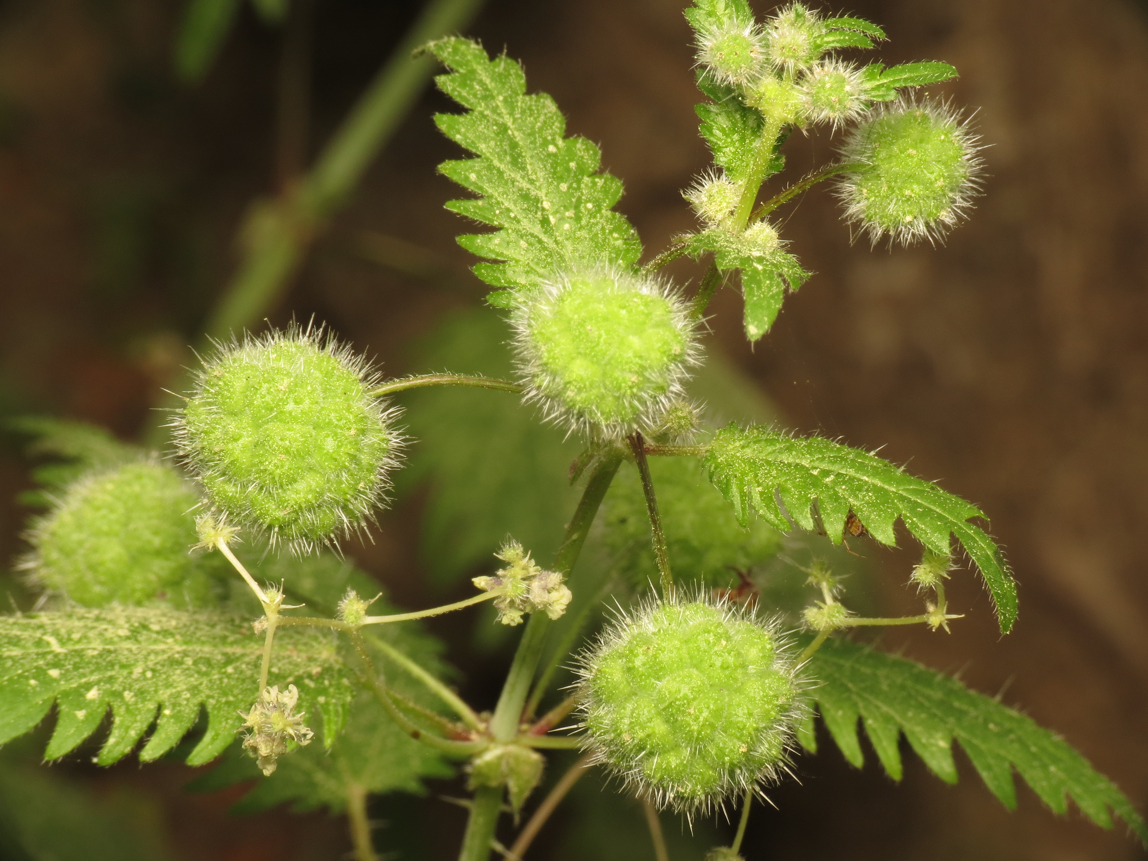 Urtica pilulifera L., Mount Lycabettus, Athens, Greece, 2 April 2014